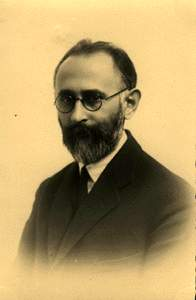 Portrait from Adolphe Ferrière (1879-1960)